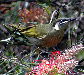 Bird, Lewin's Honeyeater, Meliphaga lewinii